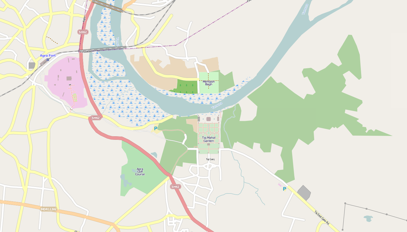 Map showing The Taj Mahal, Mehtebh Bagh and Agra Fort.